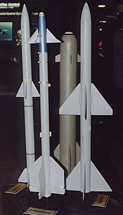 Multiple air to air missiles. From left to right: AIM-120A/B, AIM-9L/M, AGM-114, AIM-7C/D/E. Picture taken by cobrachen.